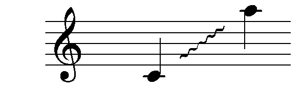 voice range of a soprano